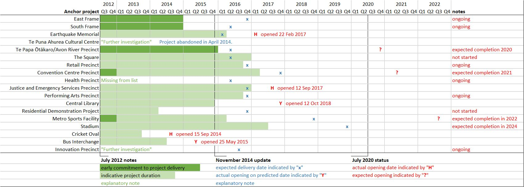 Timeline for the Christchurch Central Recovery Plan as of July 2020